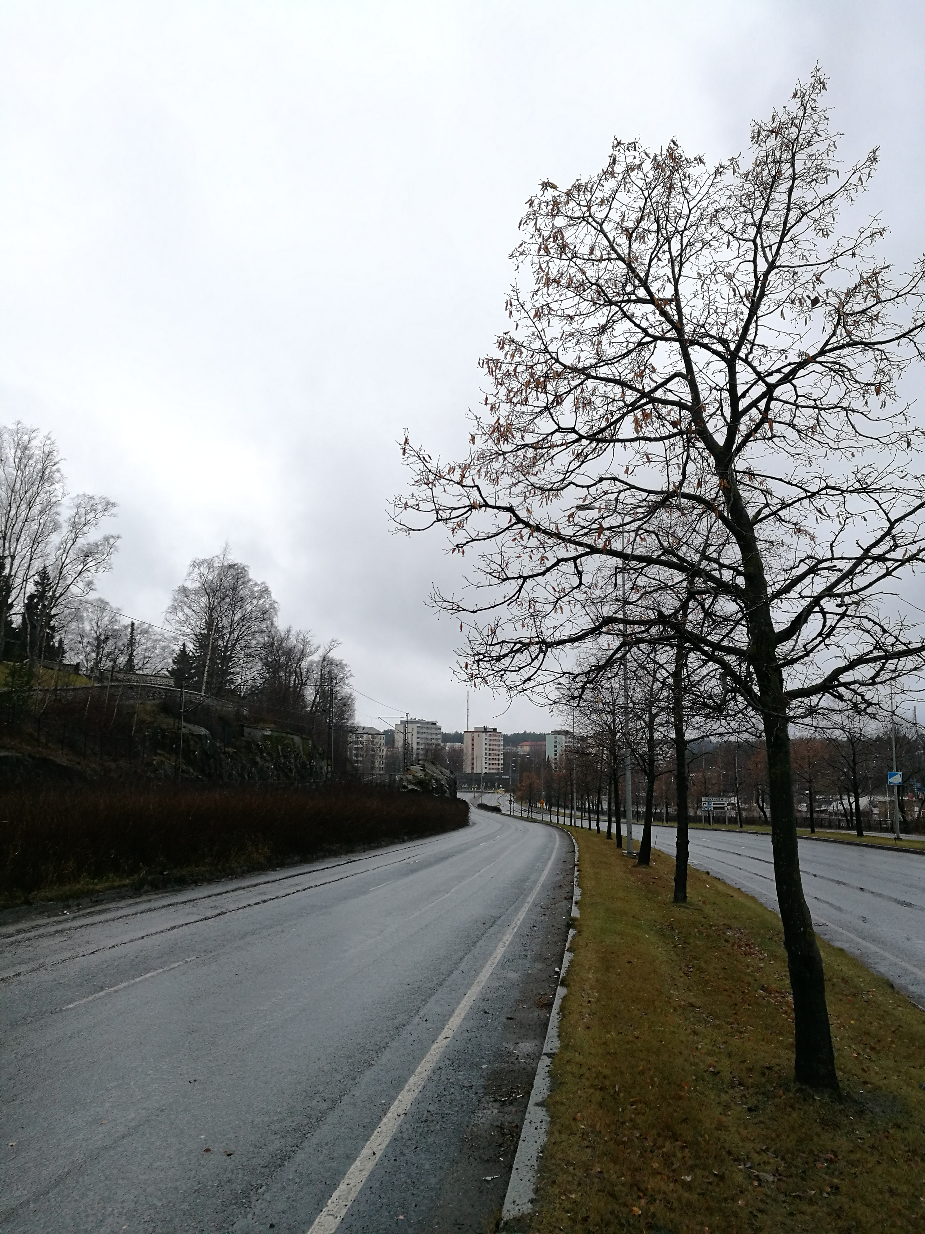 Closed Kekkos-Paasikivi road november 2016. Tampere, Finland.